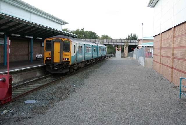 Departing train The train for Bidston departs Wrexham Central. The bridge behind shows that once this location would have been full of tracks and sidings. Now rebuilt there is not much of a railway at all and like many places shops and supermarkets replace rails along with car parks.